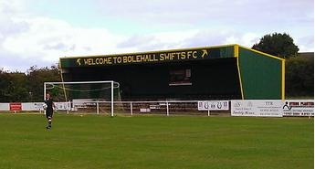 The main stand at the home stadium of Bolehall Swifts F.C.. Took the photo myself.